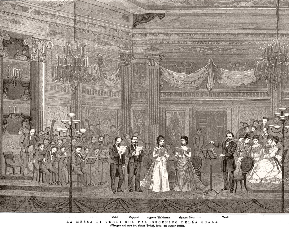 Description: The first performance of the Verdi Requiem at La Scala on 25 May 1874, drawn from life Artist: Osvaldo Tofani (1849-1915). Engraved by Baldi Publication: Illustrazione Universale, Milan, 1874 Note the Flickr source gives an erroneous date for the performance (25 June 1874)